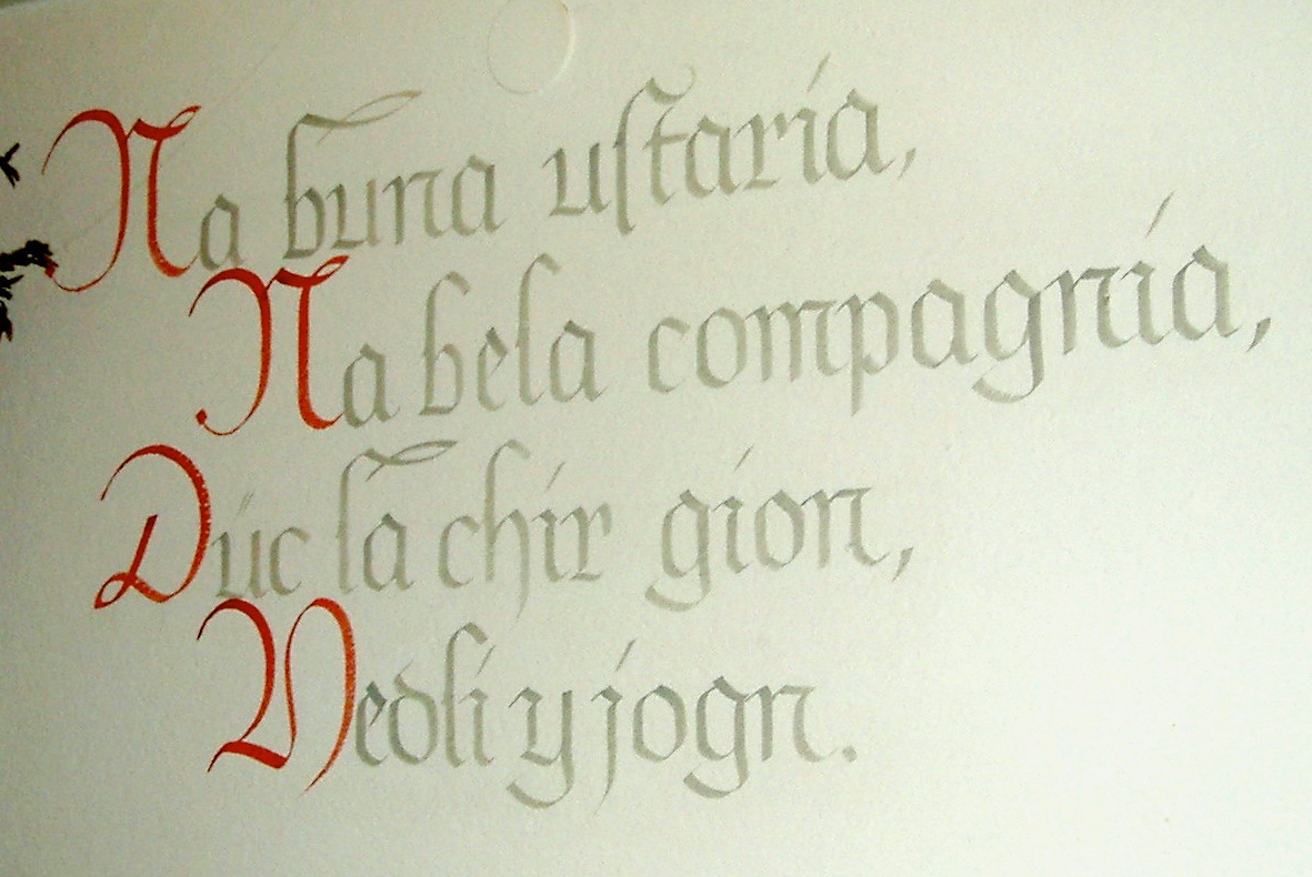 Ladin inscription in the Gasthof Pider in La Val. Ladin: Na bona ustaria, na bella compagnia, düc la chir gion, vedli y jogn. - A good pub, a good companion, all search for a good time, old and young